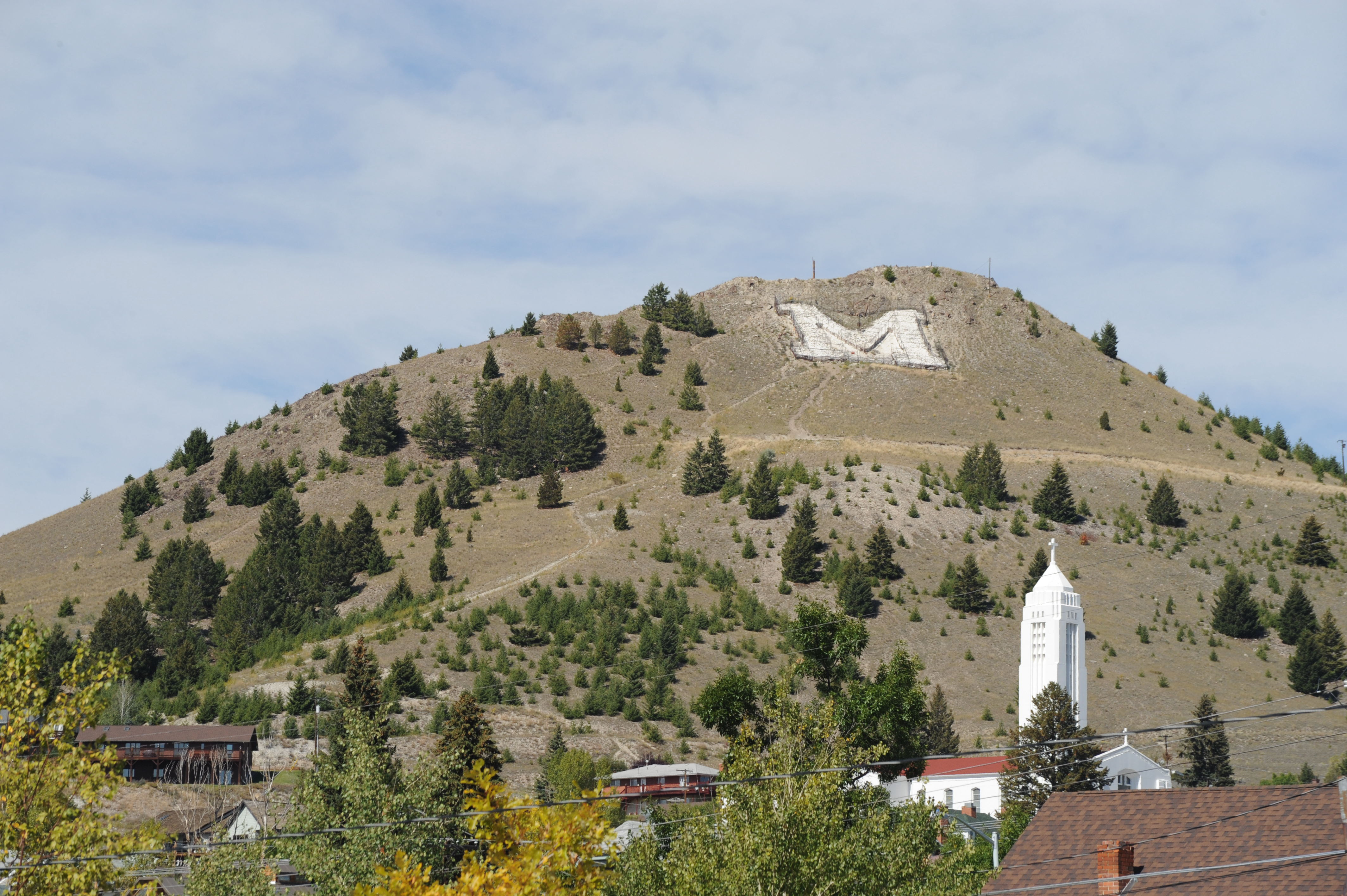 Symbol Mark of Butte. "M" means Mining town.